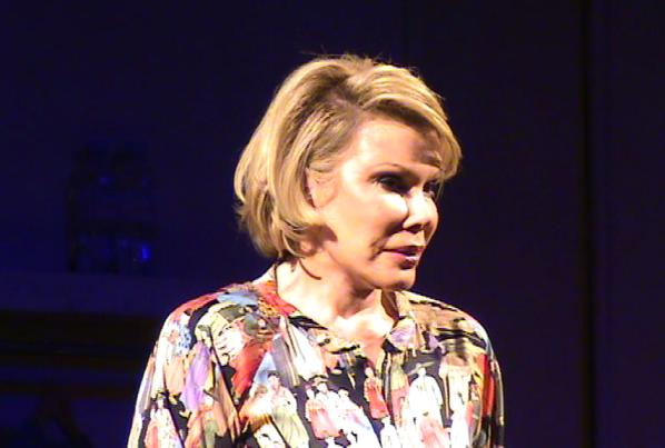 Picture of Joan Rivers in her show Life in Progress at the 2008 Edinburgh Festival Fringe